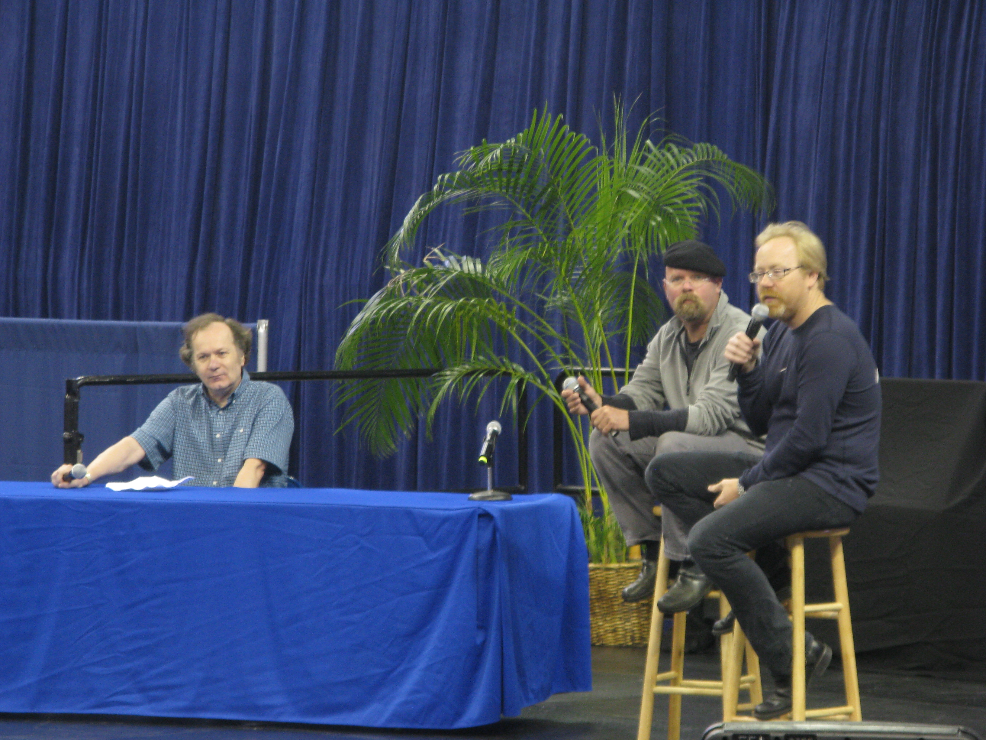 The Mythbusters speak at the University of Florida during an ACCENT event.